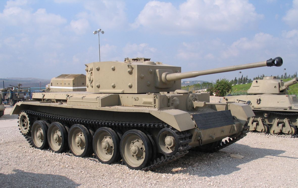 Description: Cruiser tank VIII Cromwell in Yad la-Shiryon Museum, Israel. 2005. Remark: the gun is dummy. Source: Photo by me, User:Bukvoed.